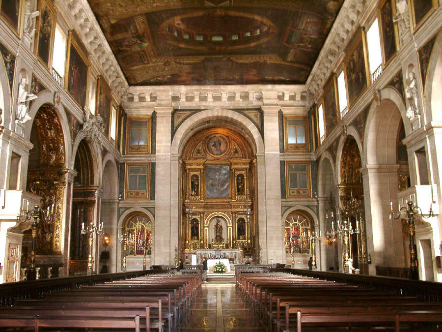 Interior view of the Church of Sao Roque, Lisbon, Portugal.